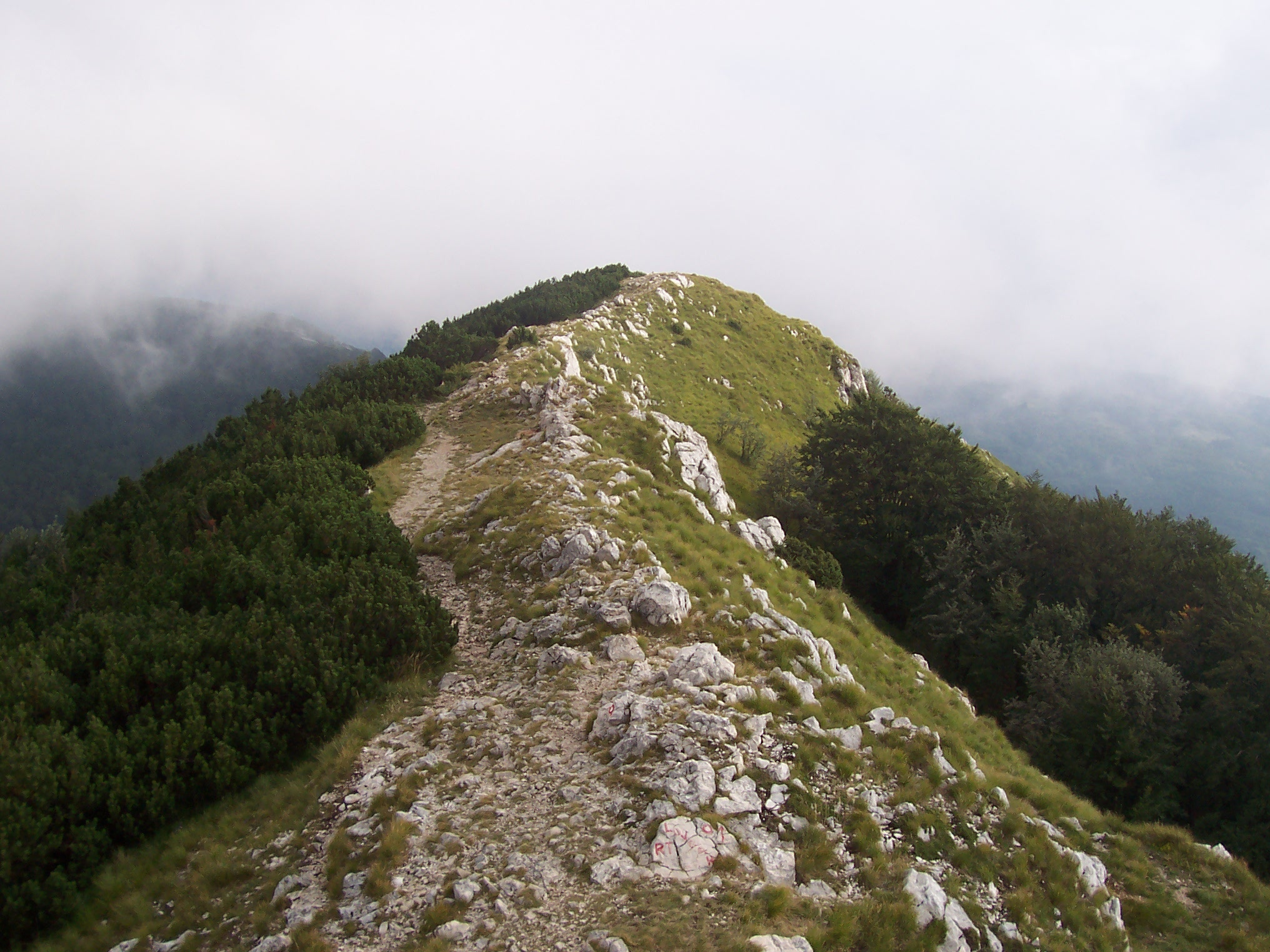 Vojak, top of, Croatia, 1401 meter.